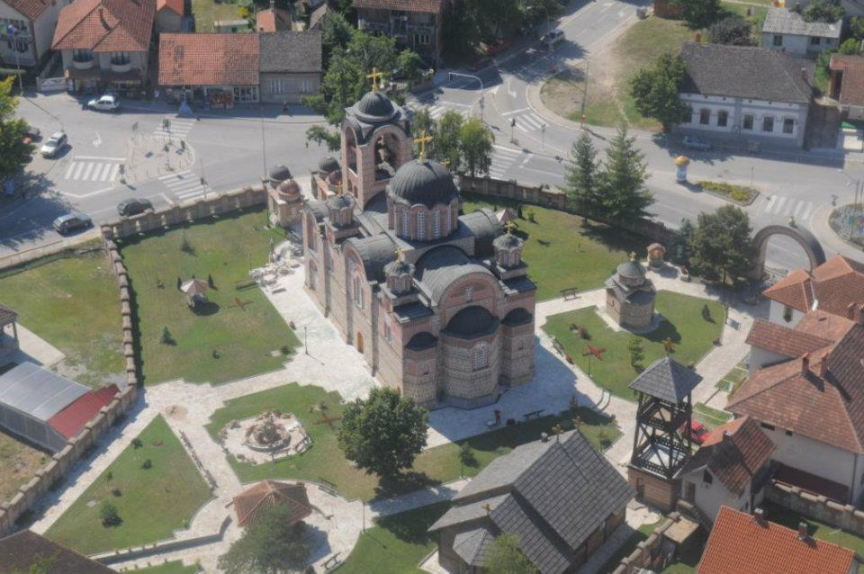 Ub Curch